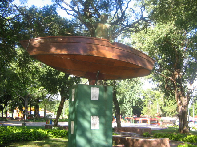 Benignoarrau sculpture at San Antonio, Paraguay.